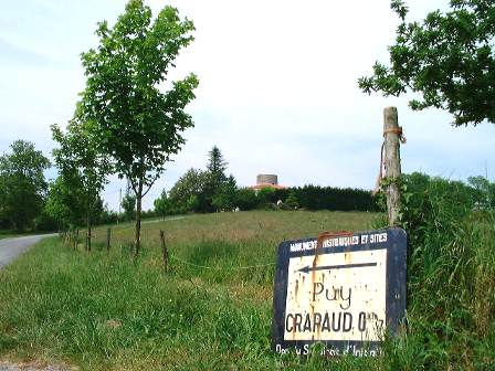 puy crapaud